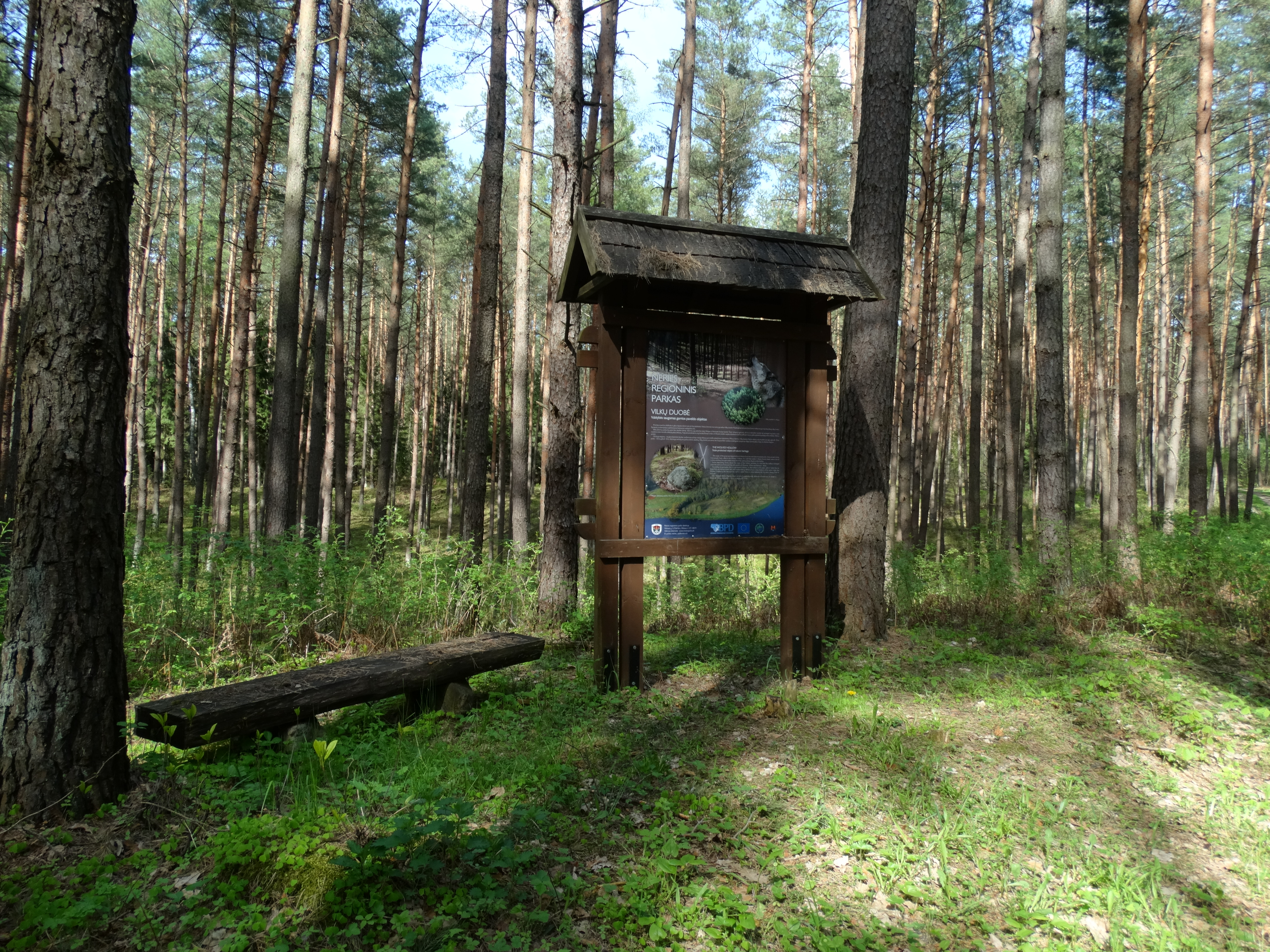 Hollow of wolves, Vilnius District, Lithuania